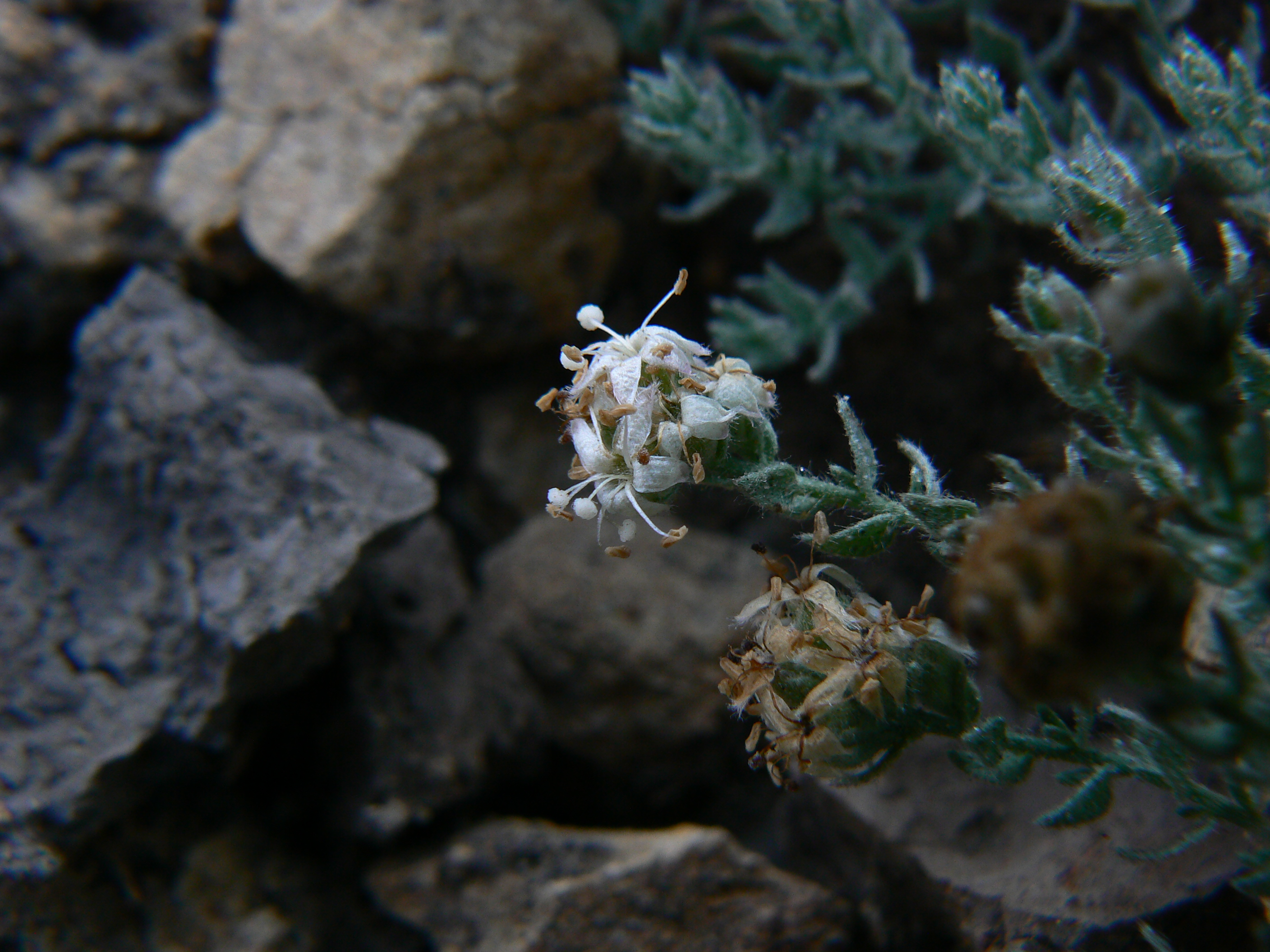 Convolvulaceae (convolvulus, bindweed, or morning glory family) » Cressa cretica KRESS-a -- from the Greek Kressa, a reference to a Cretan woman KRET-ee-kuh -- of or from Crete commonly known as: littoral bind weed, rosin cress • Hindi: रुद्रवंती rudravanti • Kannada: ಮುಳ್ಳುಮದ್ದುಗಿಡ mullumaddugida • Konkani: चवल chaval • Malayalam: അഴുകണ്ണി azhukanni • Marathi: लोण lona, रुद्रवंती rudravanti • Sanskrit: रुद्रवन्ति rudravanti • Tamil: உப்பு மரிக்கொழுந்து uppu marikkozhundhu • Telugu: ఉప్పుగడ్డి uppugaddi, ఉప్పుసెనగ uppusenaga Native to: Mediterranean region, India, Australia References: Flowers of India • IMPGC • Aluka • Further Flowers of Sahyadri by Shrikant Ingalhalikar